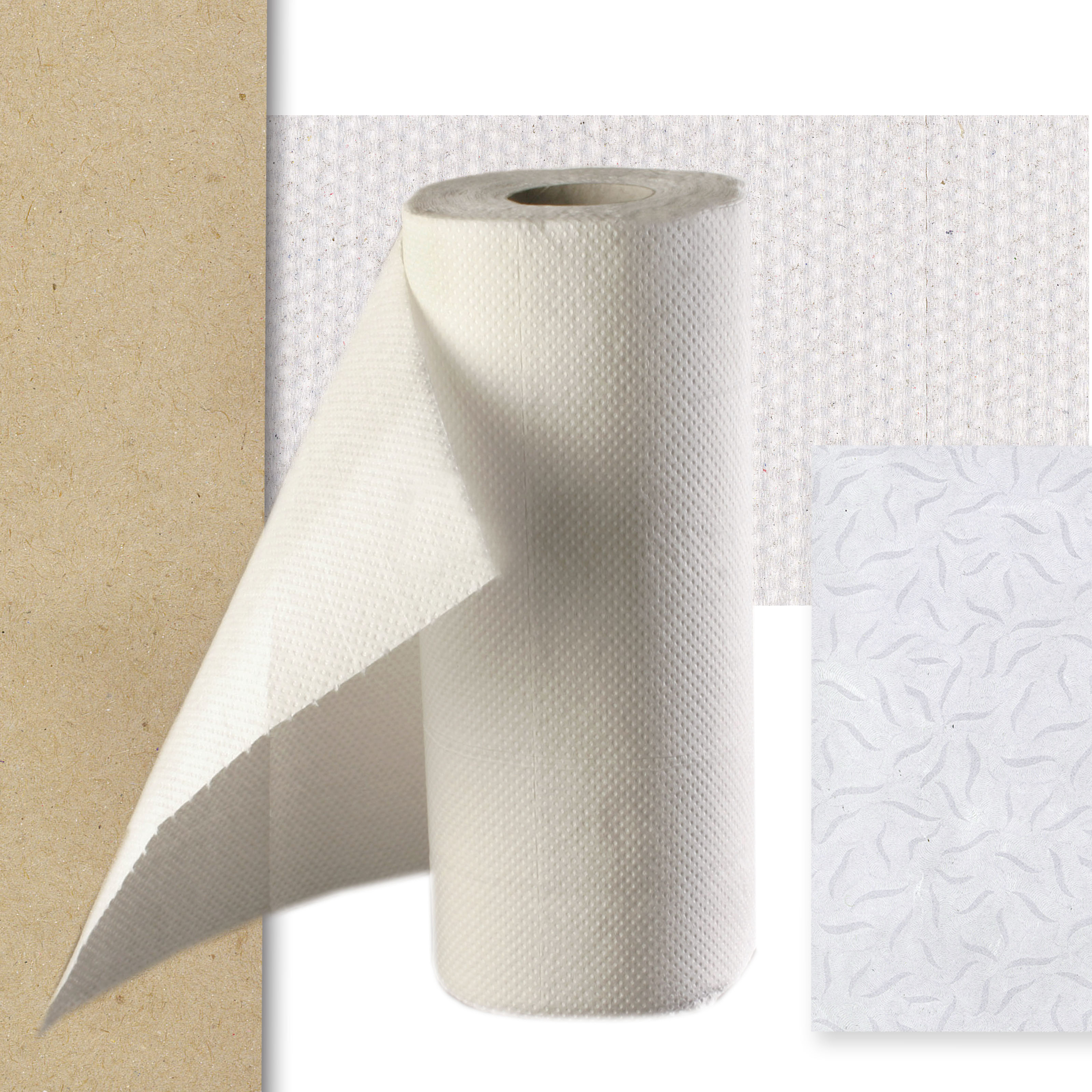 papier - various papers in day.